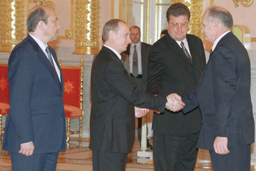 THE GRAND KREMLIN PALACE, MOSCOW. The presentation of credentials by Danilo Vuksanovic, Ambassador of the Federal Republic of Yugoslavia to Russia.